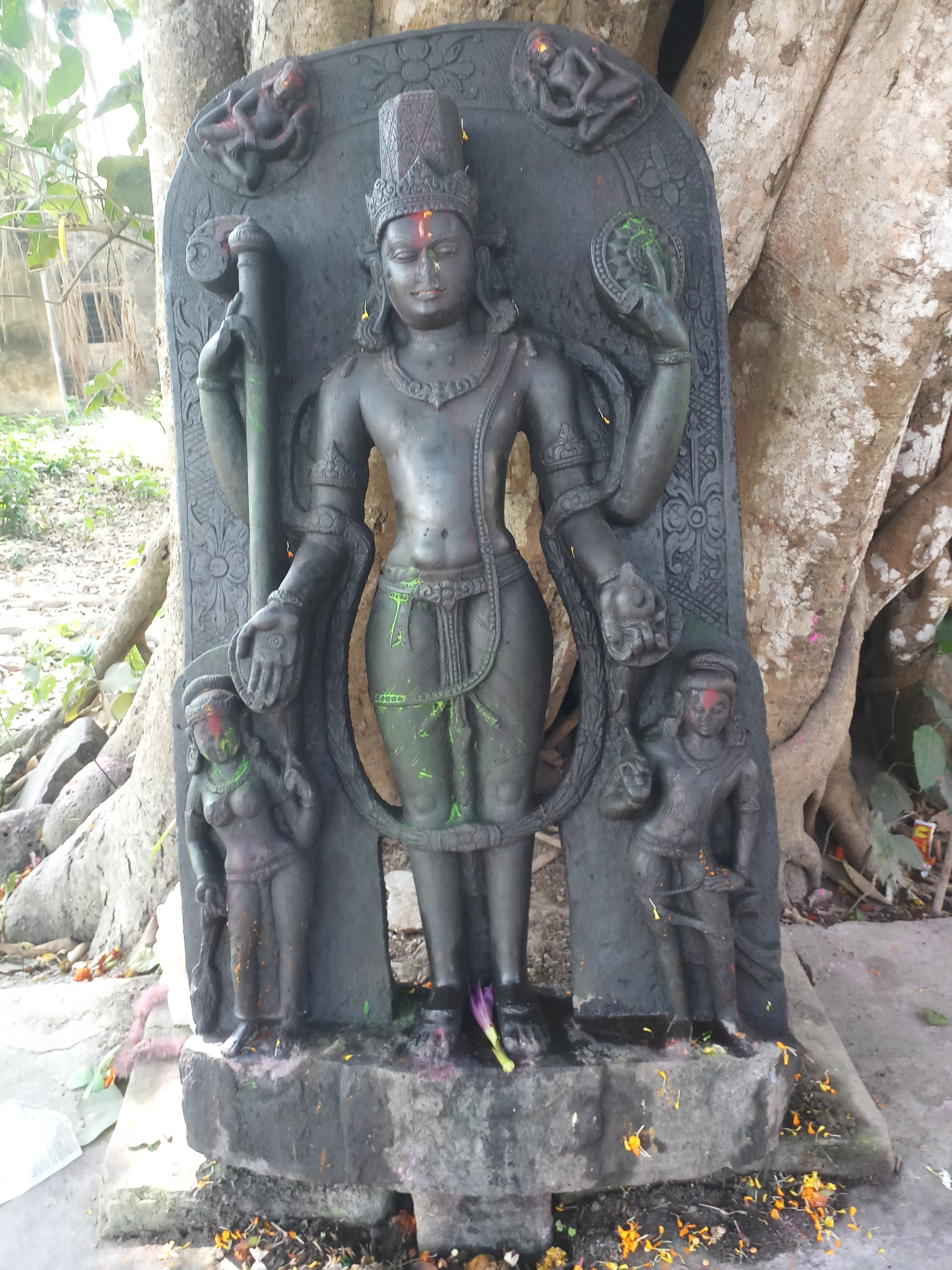 This statue has been found at Anulia in Nadia district.